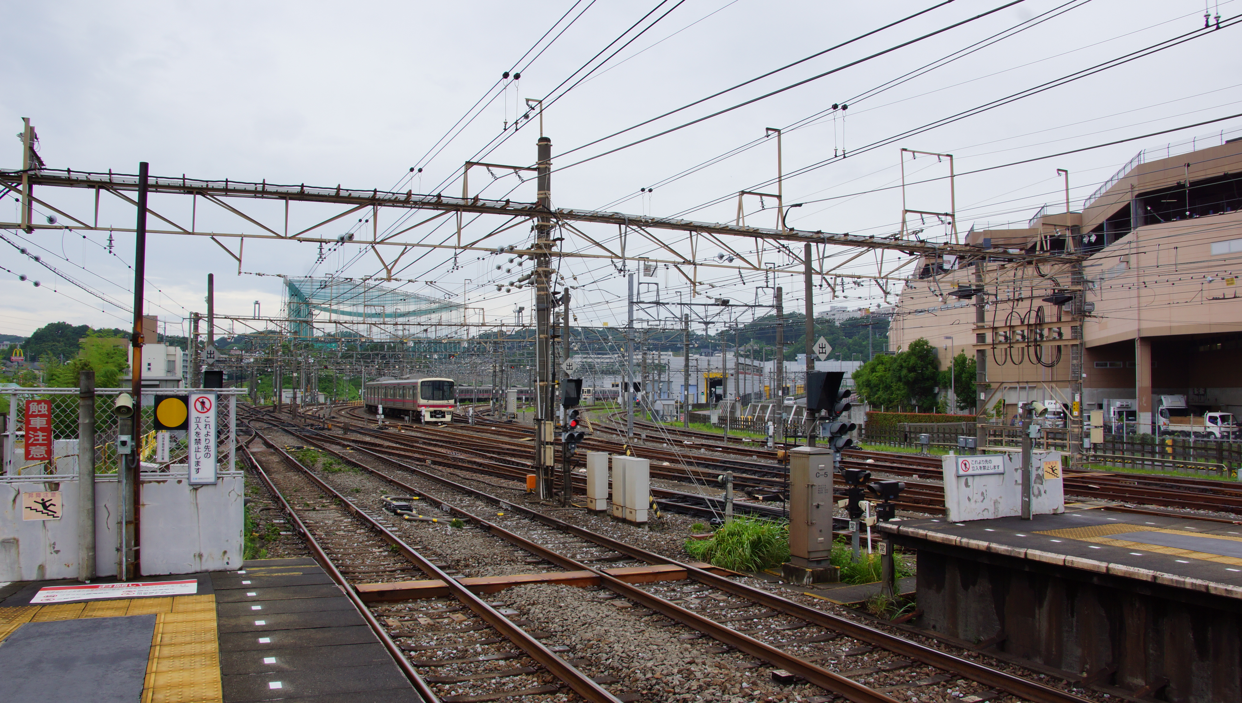 Wakabadai Depot viewed from the platforms at Wakabadai Station on the Keio Sagamihara Line in Kanagawa Prefecture, Japan